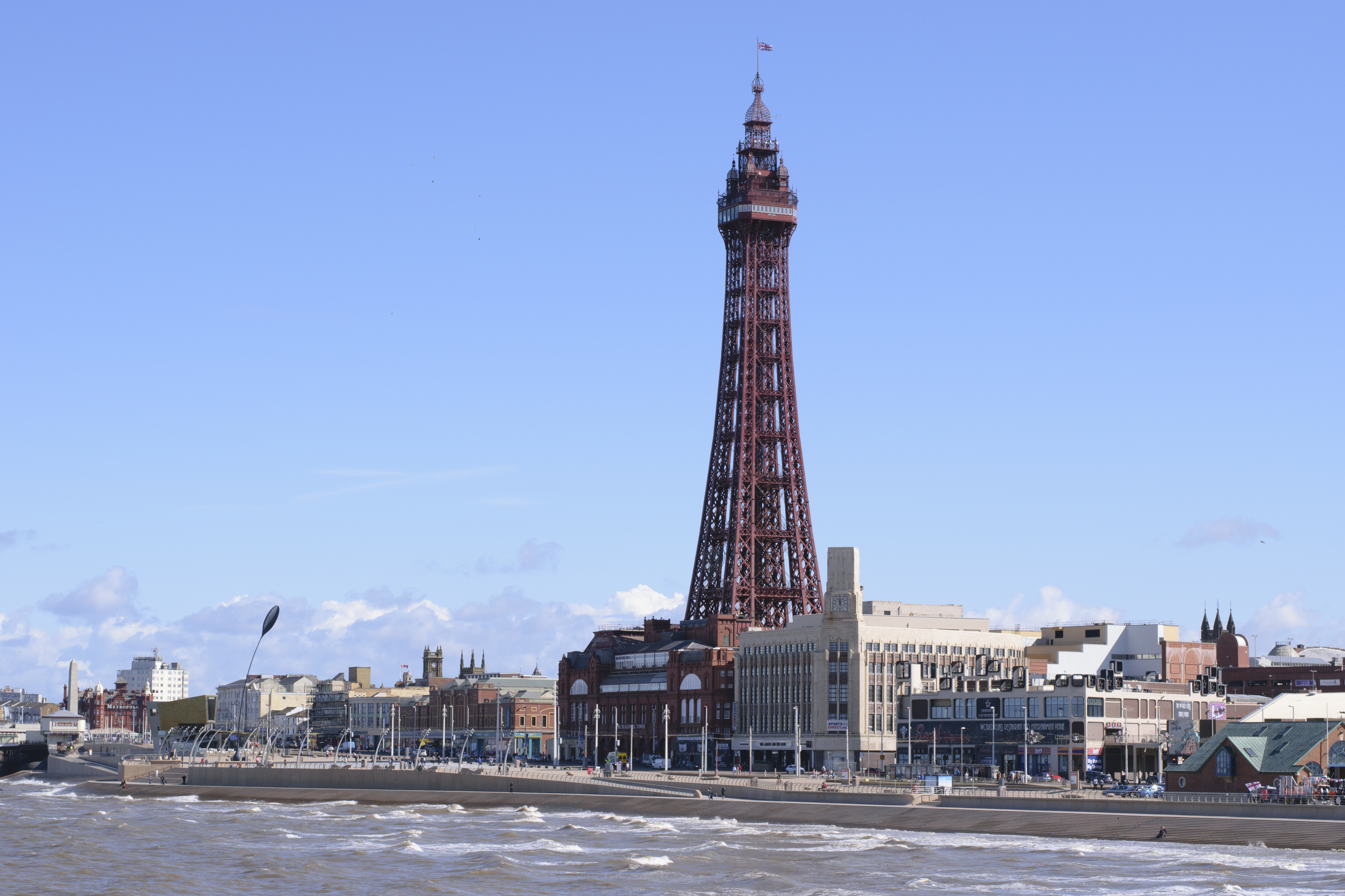 Blackpool Tower Wikidata has entry Q880905 with data related to this item.